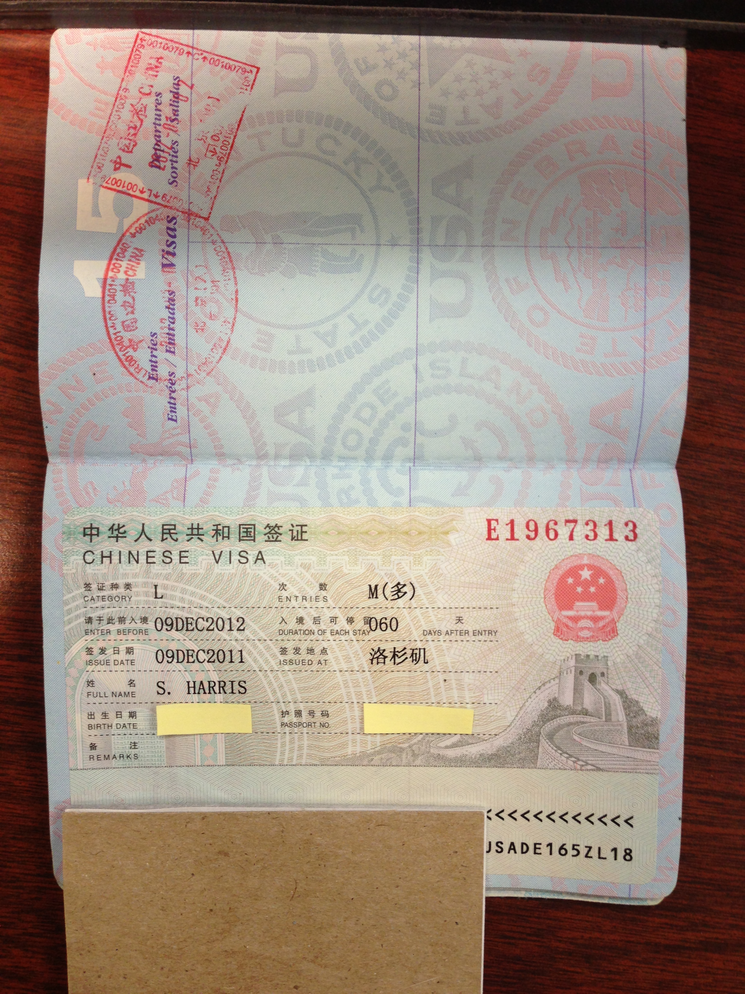 This is the author's 60 day China (PRC) visa (category L) issued Dec. 2011. The visa sticker is affixed to a visa/stamp page of a U.S. passport. An opposing passport stamp page, showing entry and exit stamps for China can be seen.